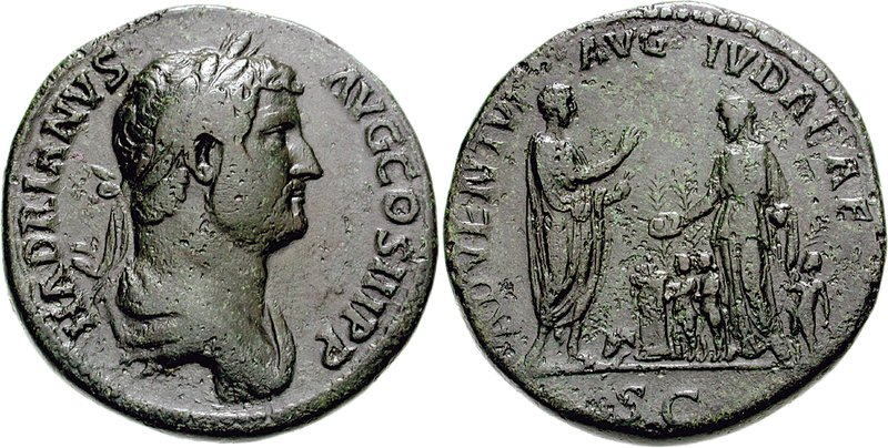 Hadrian. AD 117-138. Æ Sestertius (27.08 g, 12h). Rome mint. Struck circa AD 134/5-138. HADRIANVS AVG COS III P P, laureate and draped bust right / ADVENTVI AVG IVDAEAE, S C in exergue, Hadrian standing right, raising right hand, facing Judaea standing left, holding patera in right hand and cup in left, at her feet, two small boys before her, one behind her, each holding a palm frond; between them, lit altar, behind which is a sacrificial bull lying left. RIC II 893 var. (no bull); Strack 752; Banti 43; cf. Hendin 798; BMCRE 1657 var. (same); Cohen 51. VF, green patina with hues of brown, minor porosity. Extremely rare variety with bull, apparently the third and finest known.